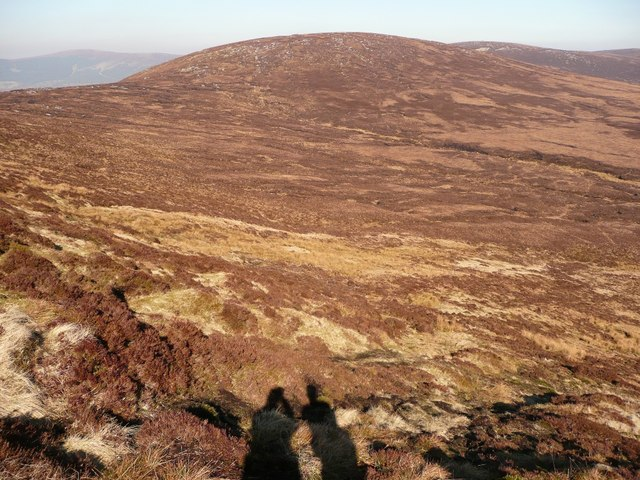 South side of Duff Hill Looking northwards across the headwaters of the Inchavor River with Duff Hill in the distance